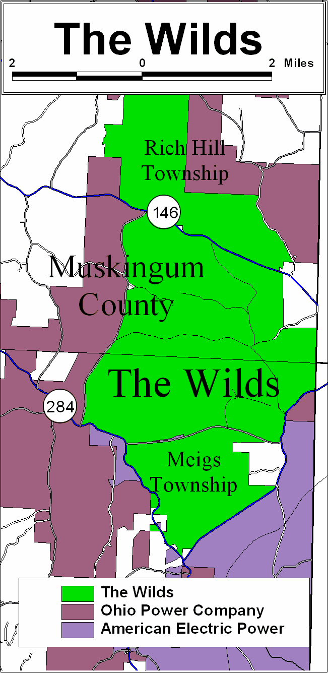 Created with Arcview GIS 3.3 and